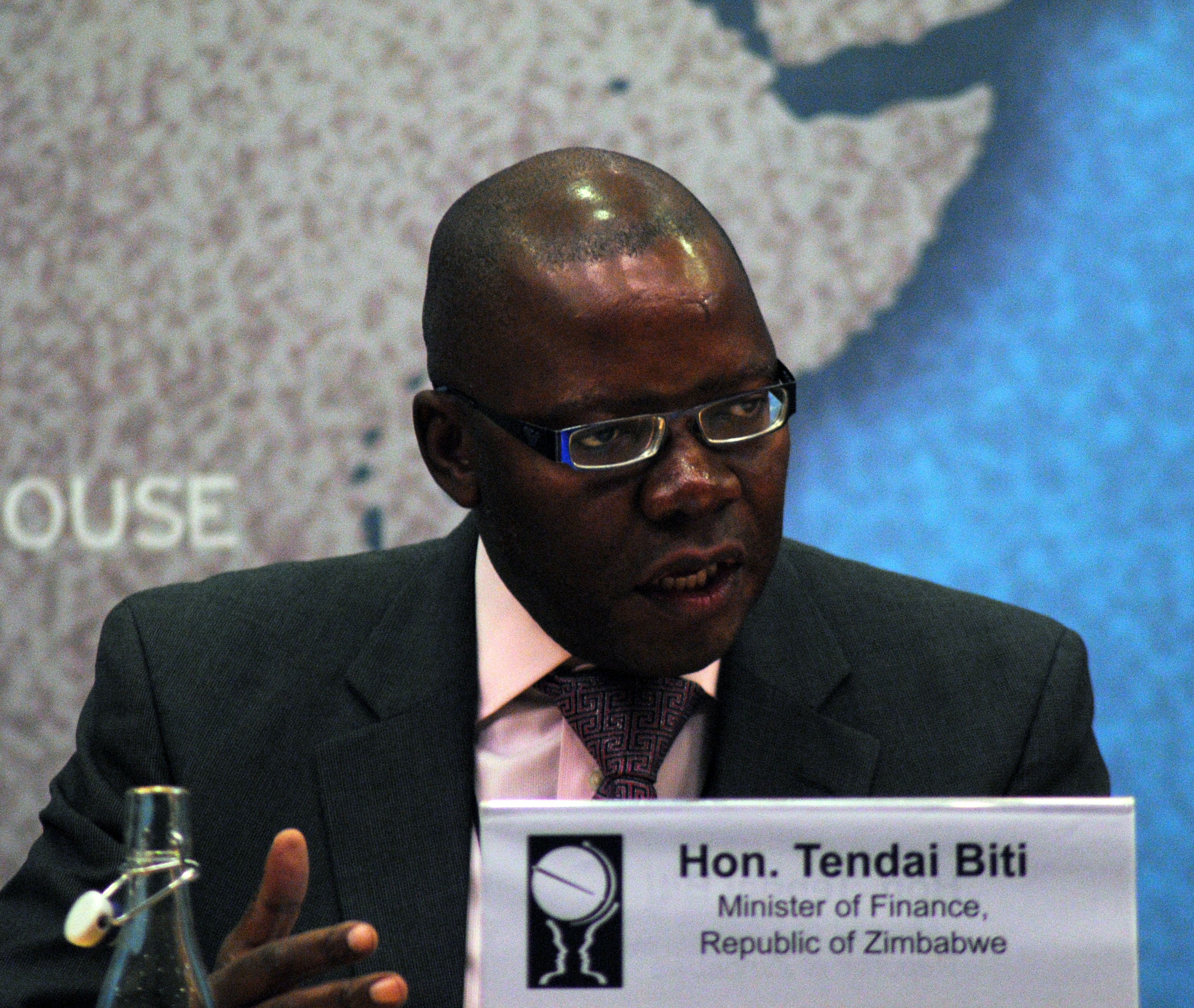 Prospects for Regional Cooperation and Investment Opportunities in Zimbabwe, 24 April 2013 cht.hm/17SXQ6j